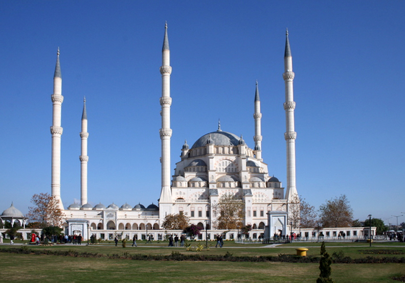 Sabanci Mosque